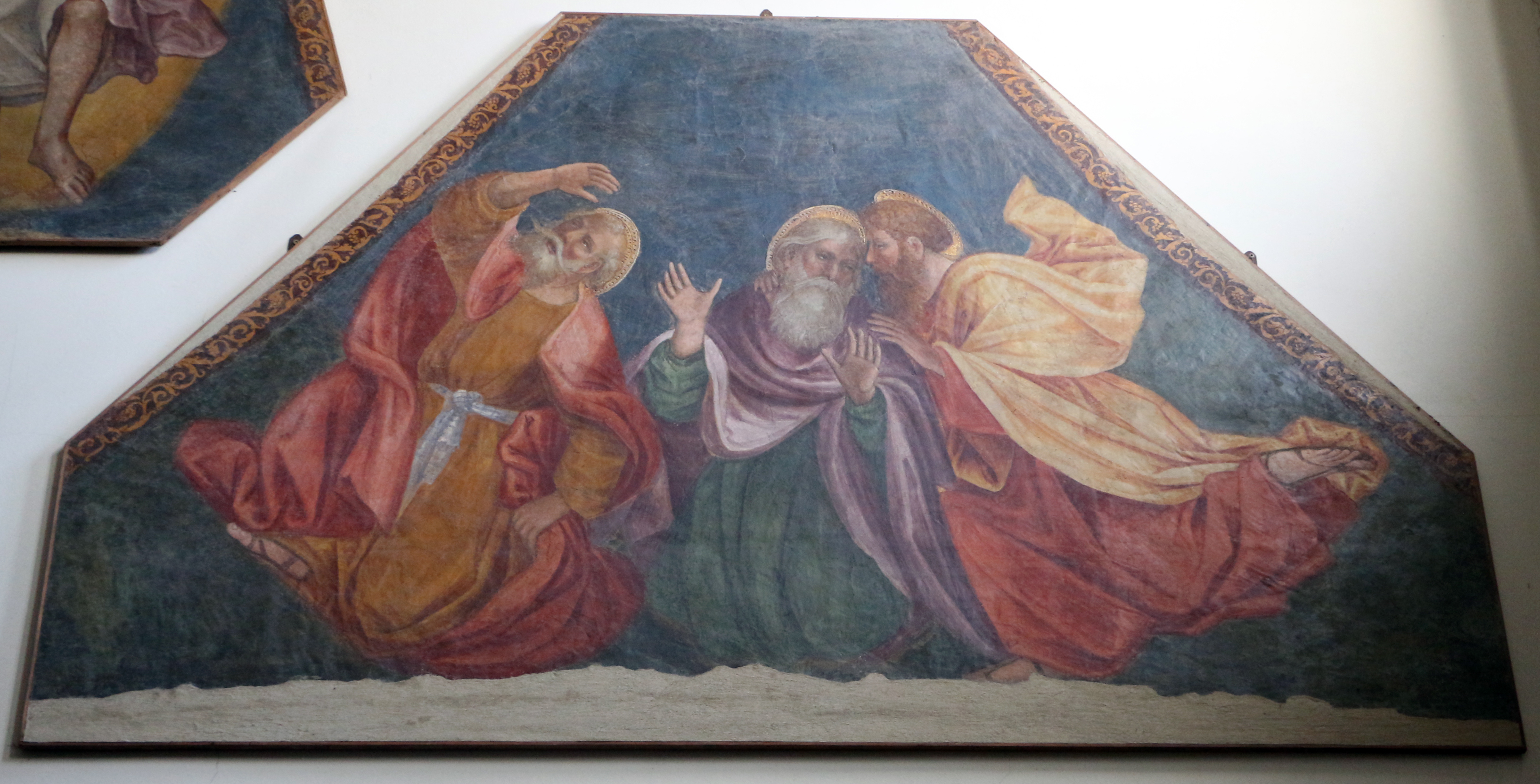 San Nicolò (Zanica) - Museum